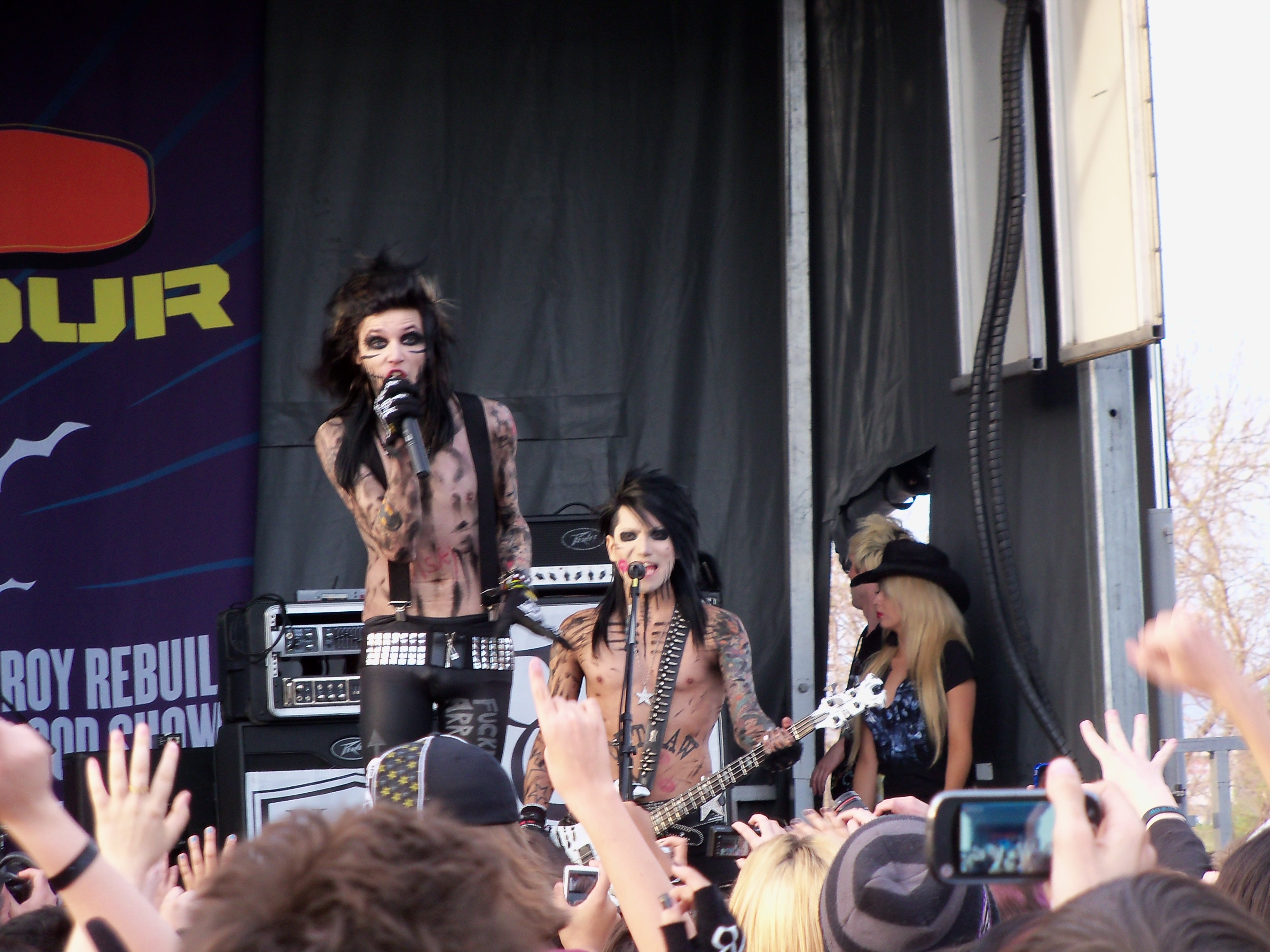 Black Veil Brides performing at Extreme Thing in Las Vegas, Nevada